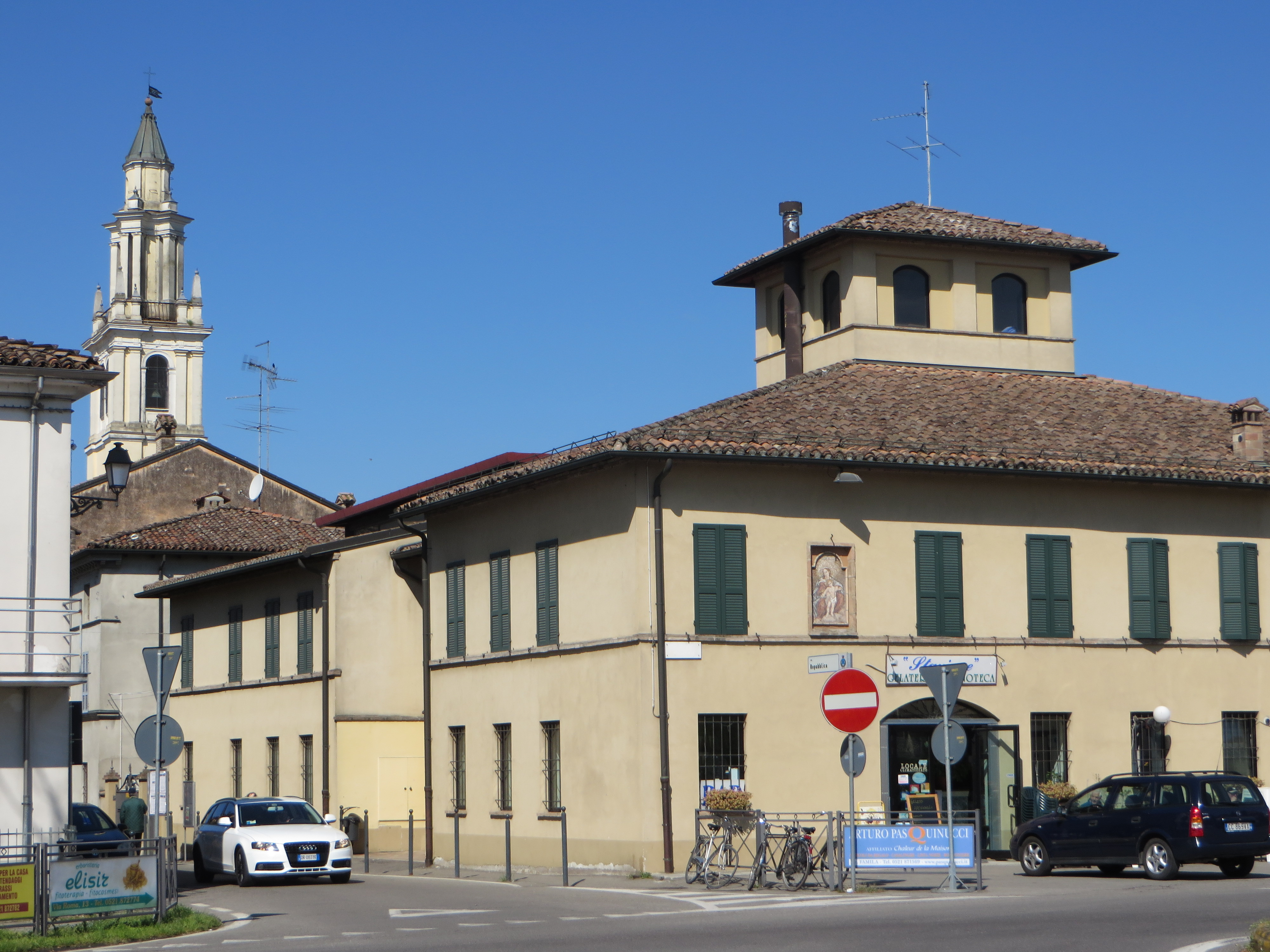 Station